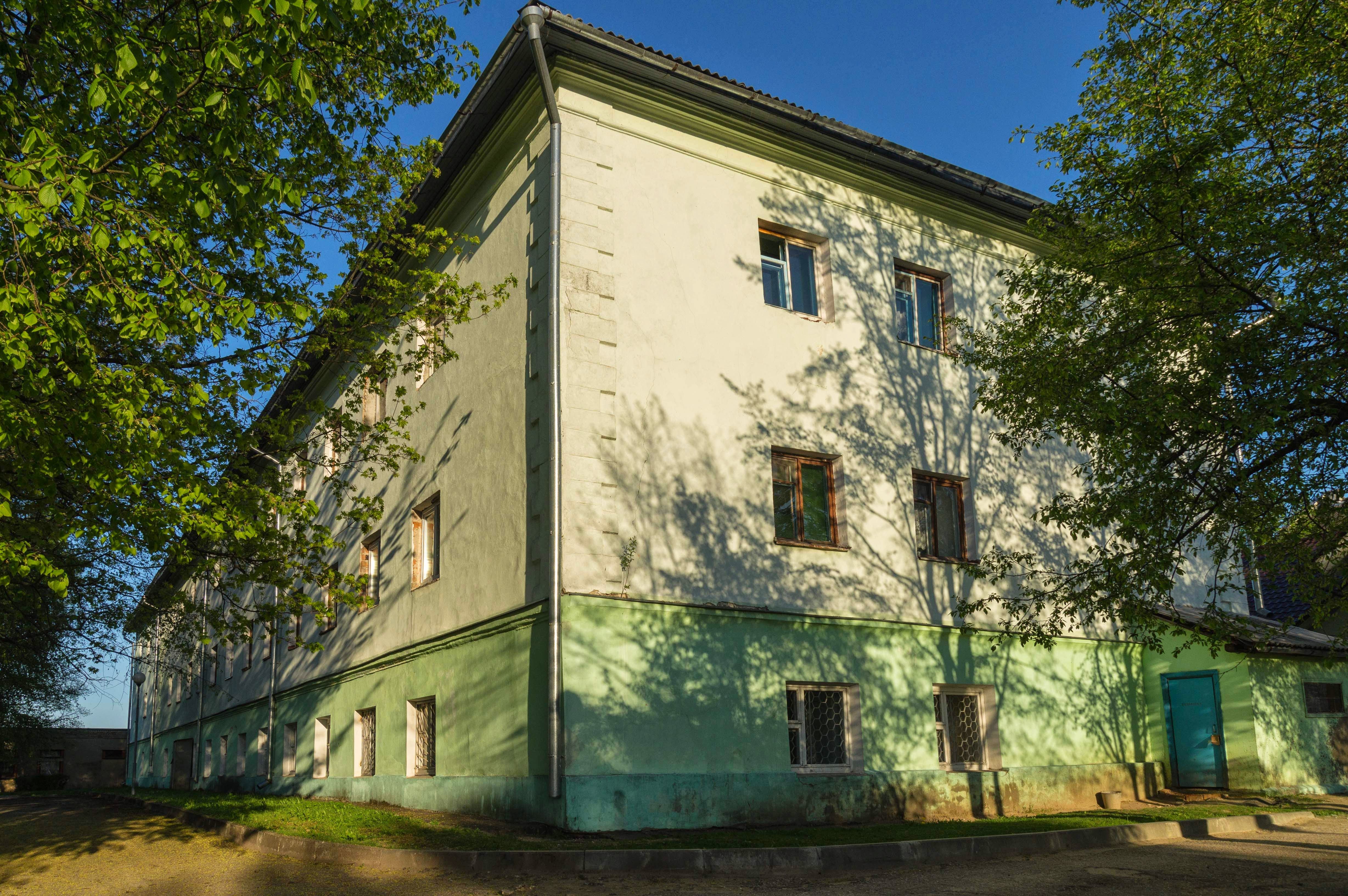 Vilejka building of the former prison on the other side